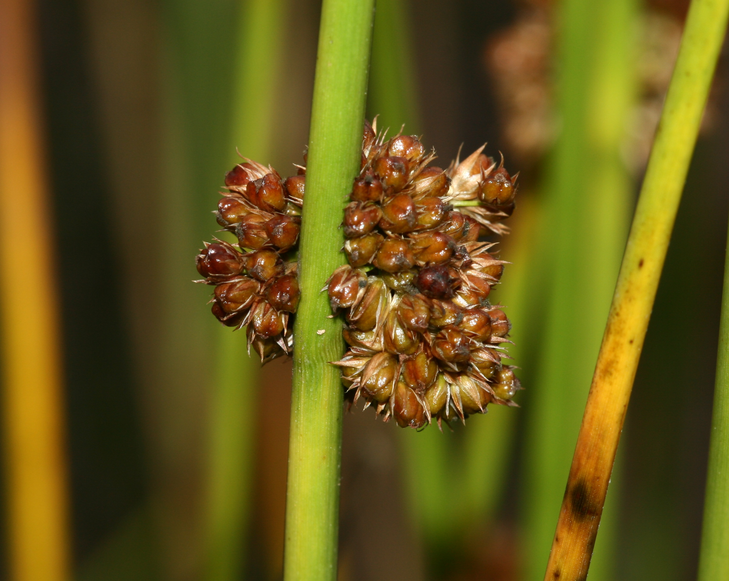 Juncus conglomeratus L. - Compact rush, Bunch-flowered soft rush